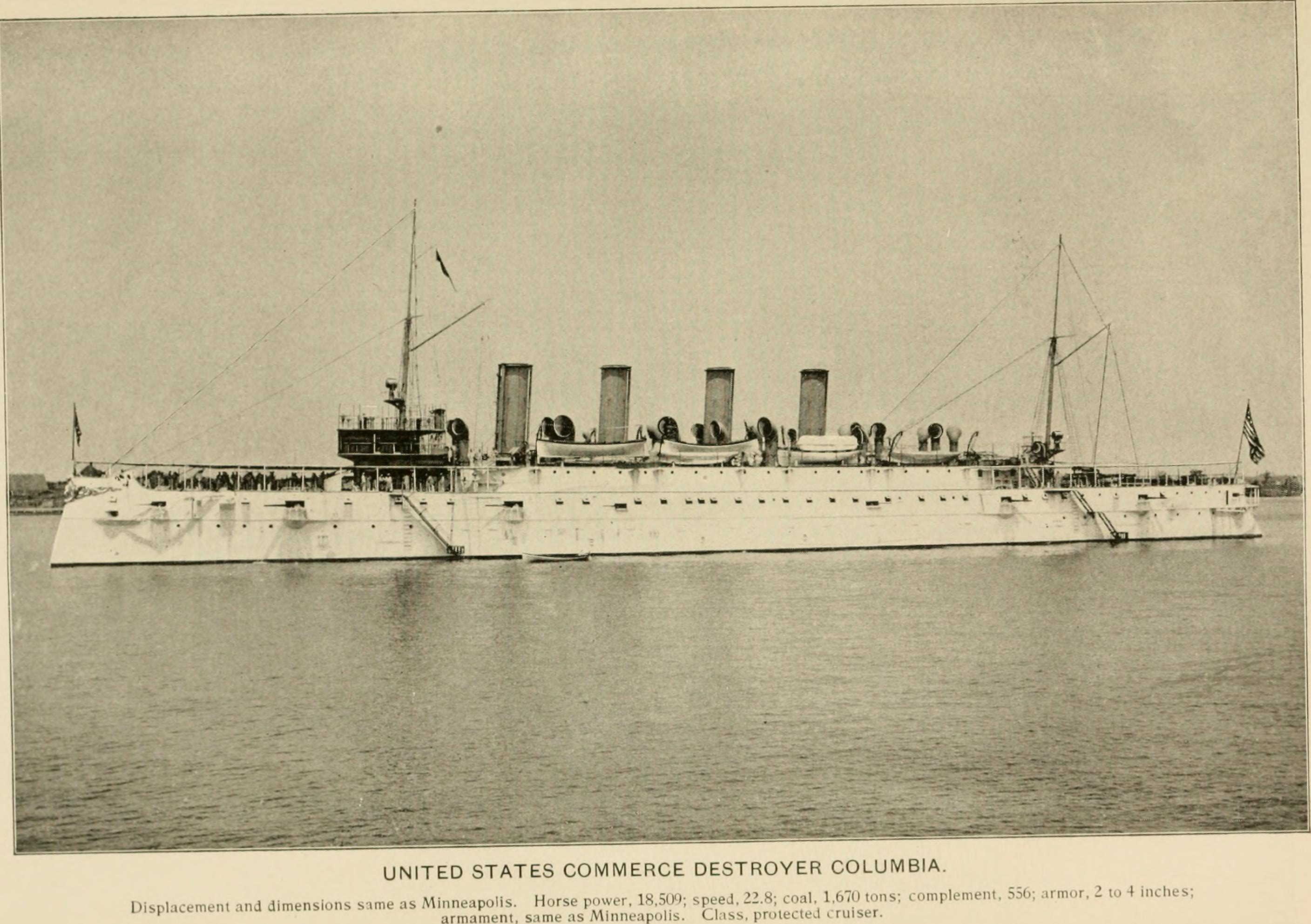 Title: Pensacola harbor; beautiful views and pertinent facts regarding the "deep water city" of the Gulf of Mexico; Pensacola navy yards, Pensacola shipping and Pensacola fortifications Year: 1904 (1900s) Authors: Bliss, Charles Henry, 1860-1907, ed Subjects: Publisher: Pensacola, C. H. Bliss Text Appearing Before Image: THE BLISS MAGAZINE 21 Text Appearing After Image: THE BLISS MAGAZINE